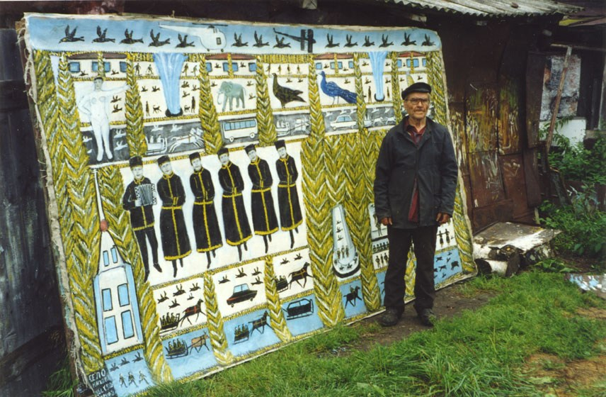 Image of Naive Artist Pavel Leonov photographed in Mekhovitzi, in 1999 by Alexei Turchin. Other information This was a photo of the artist taken by Alexei Turchin in 1999 and he is happy for its free use in Wikipedia.